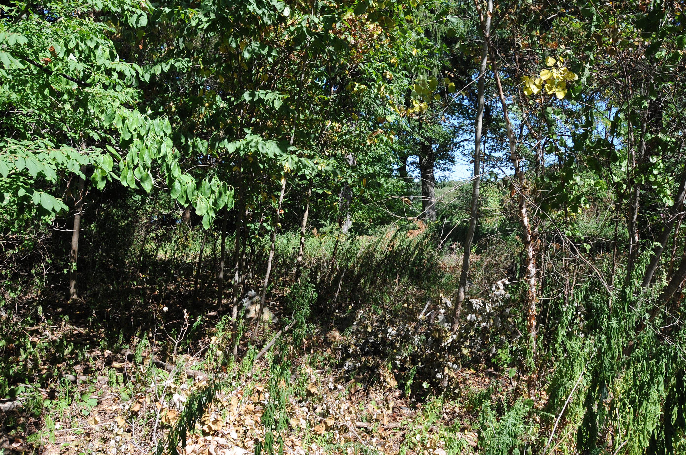 THE SITE WAS USED DURING WORLD WAR II ALONG SIDE A LAKE TO TEST ROCKET MOTORS ETC. THERE WAS A RESIDENCE ON THE SITE, PERHAPS BUILT LATER, AND A BLOCKHOUSE. ALL OF THESE HAVE BEEN DEMOLISHED AND ONLY VACANT LAND BESIDE THE LAKE COMPLETELY OVERGROWN WITH VEGETATION IS NOW PRESENT.